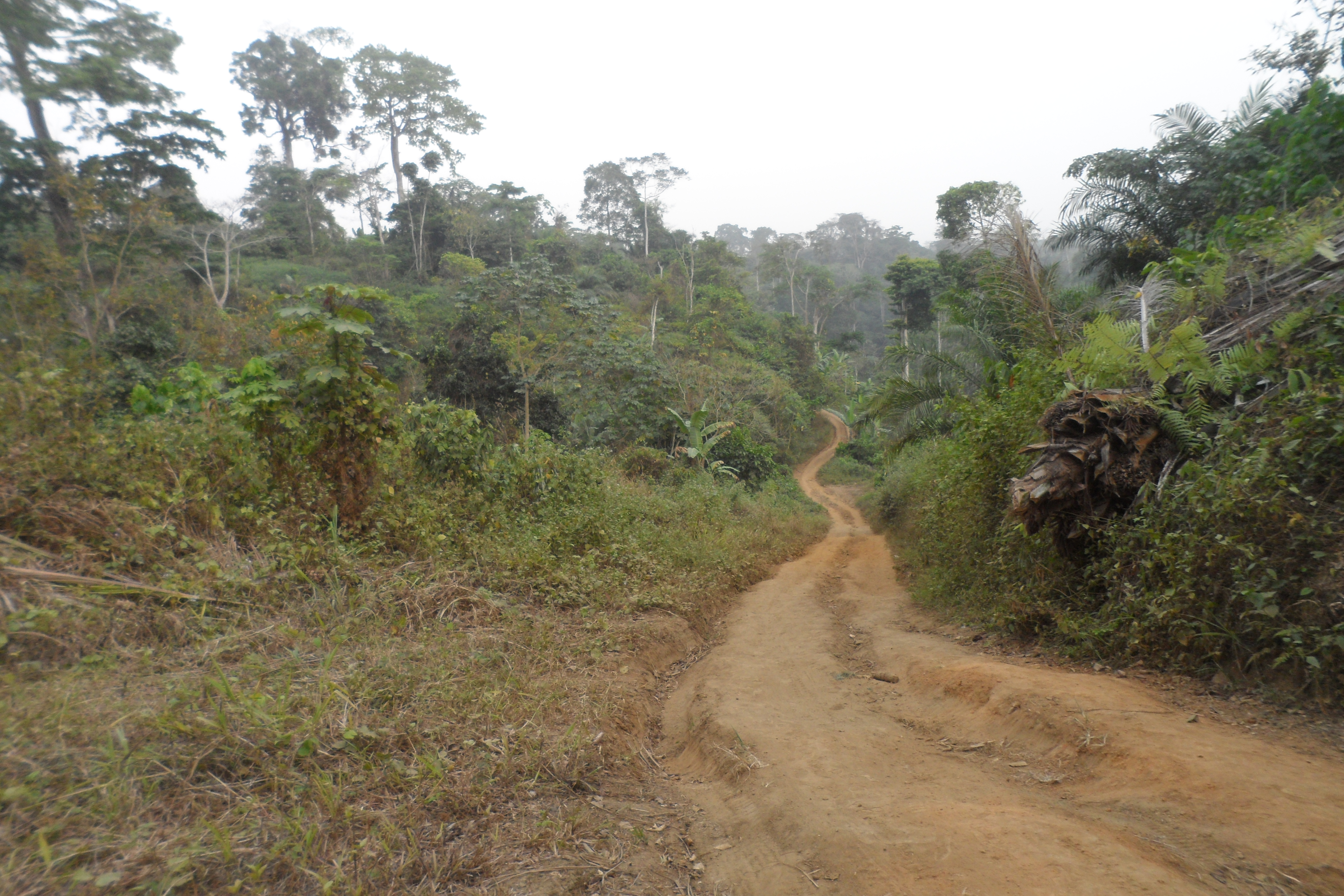 Track leading to Lake Barombi